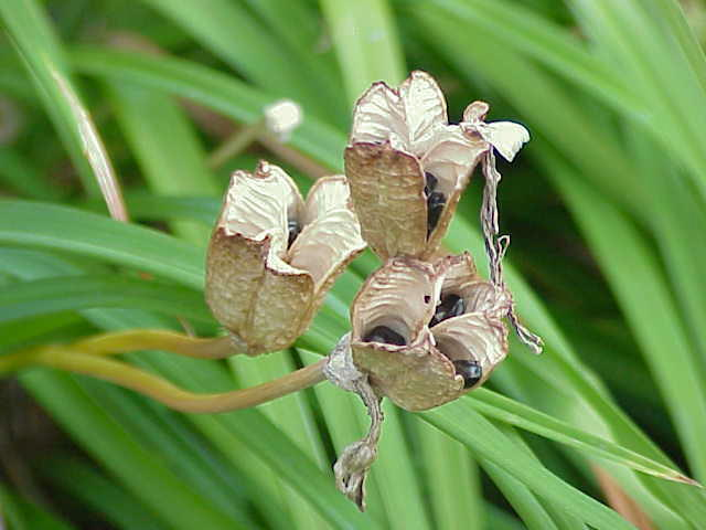 Name:Hemerocallis minor, Family:Liliaceae, Image no. 1